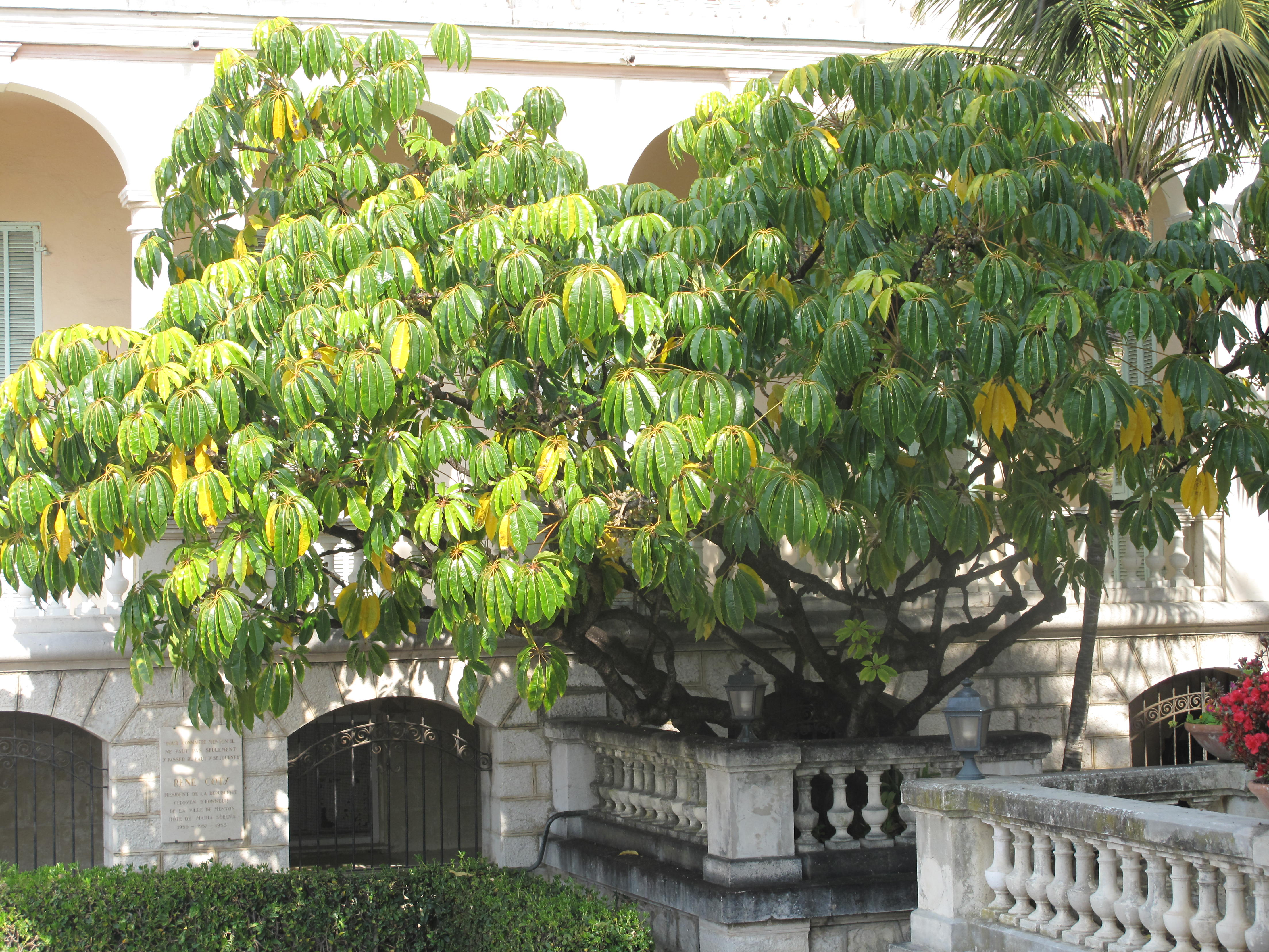 Tupidanthus, in a corner of the villa Maria Serena in Menton (Alpes-Maritimes, France).